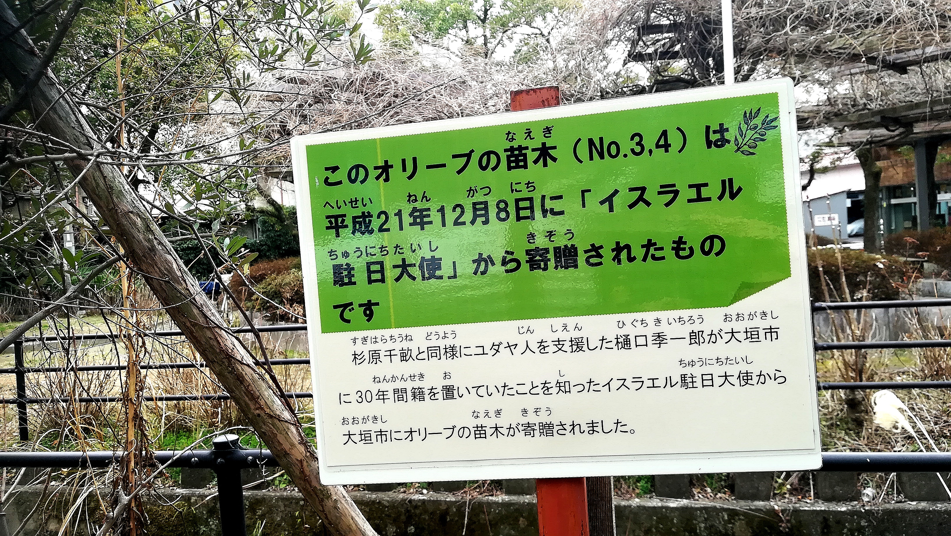 Explanation of olive tree honoring Higuchi Kiiichiro and donated by Ambassador Israel ( Marunouchi Park,Ogaki-shi,Gifu-Prefecture photographed on February 27, 2019)